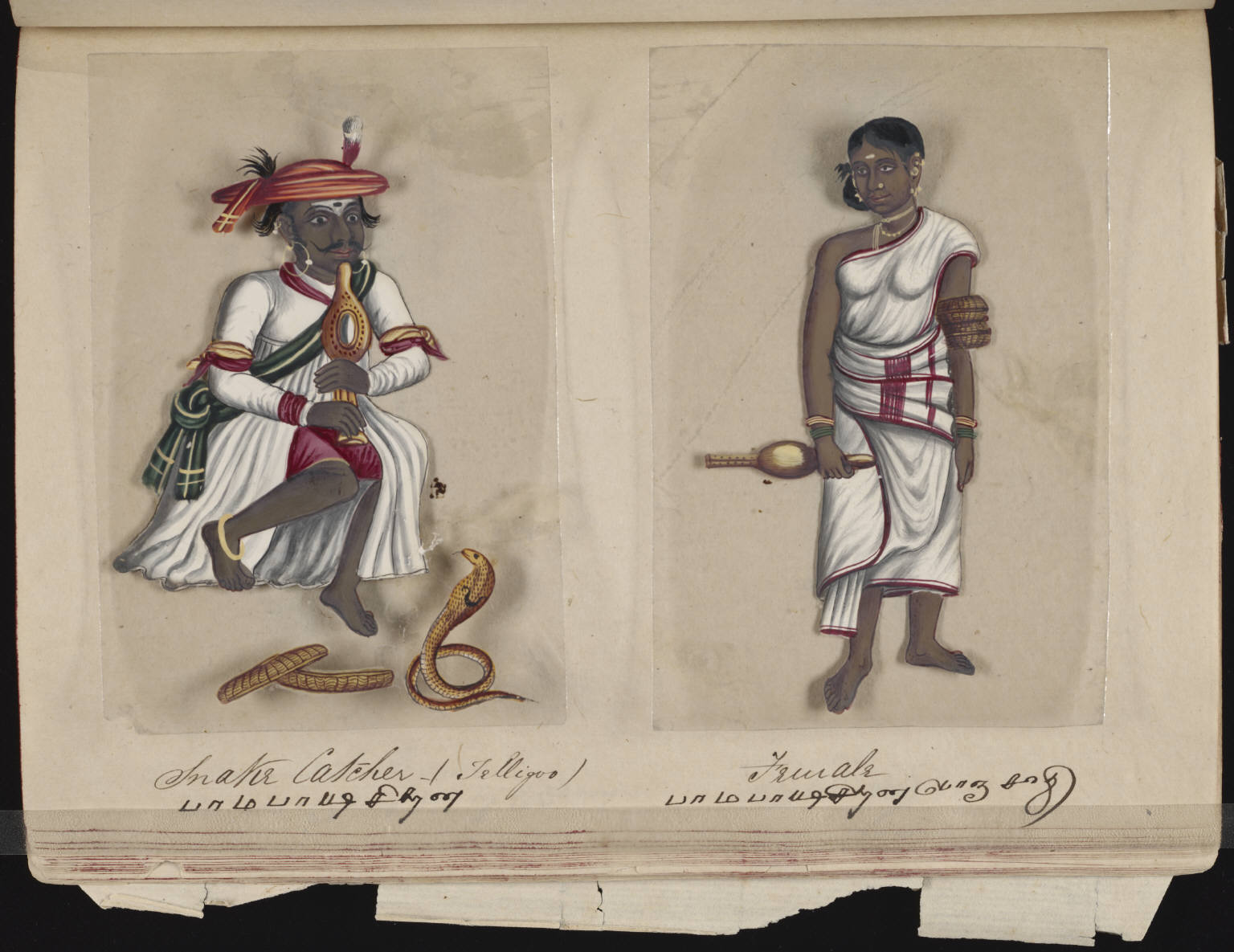 A page from the manuscript Seventy-two Specimens of Castes in India, which consists of 72 full-color hand-painted images of men and women of the various castes and religious and ethnic groups found in Madura, India at that time. Each drawing was made on mica, a transparent, flaky mineral which splits into thin, transparent sheets. As indicated on the presentation page, the album was compiled by the Indian writing master at an English school established by American missionaries in Madura, and given to the Reverend William Twining. The manuscript shows Indian dress and jewelry adornment in the Madura region as they appeared before the onset of Western influences on South Asian dress and style. Each illustrated portrait is captioned in English and in Tamil, and the title page of the work includes English, Tamil, and Telugu.